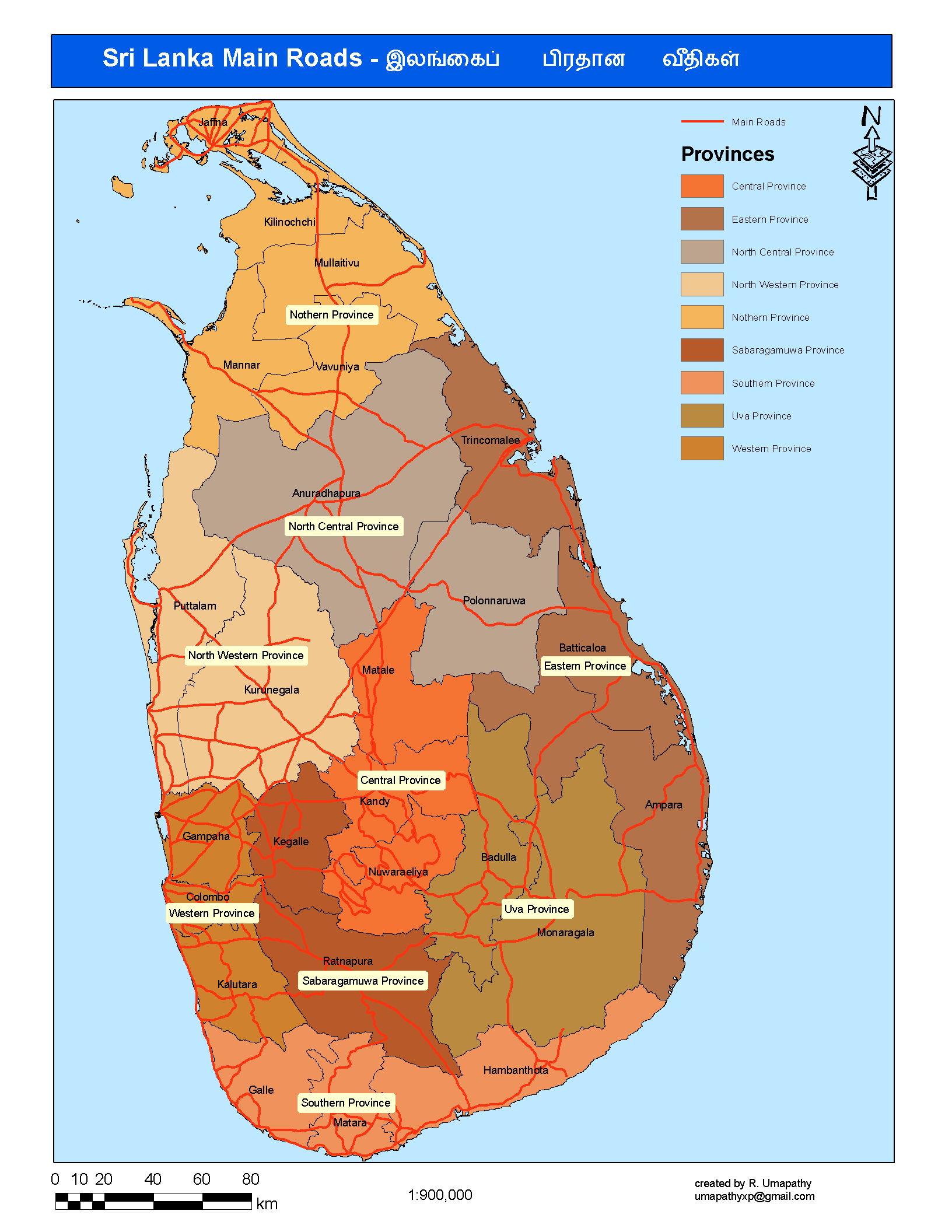 shows the main roads of Sri Lanka